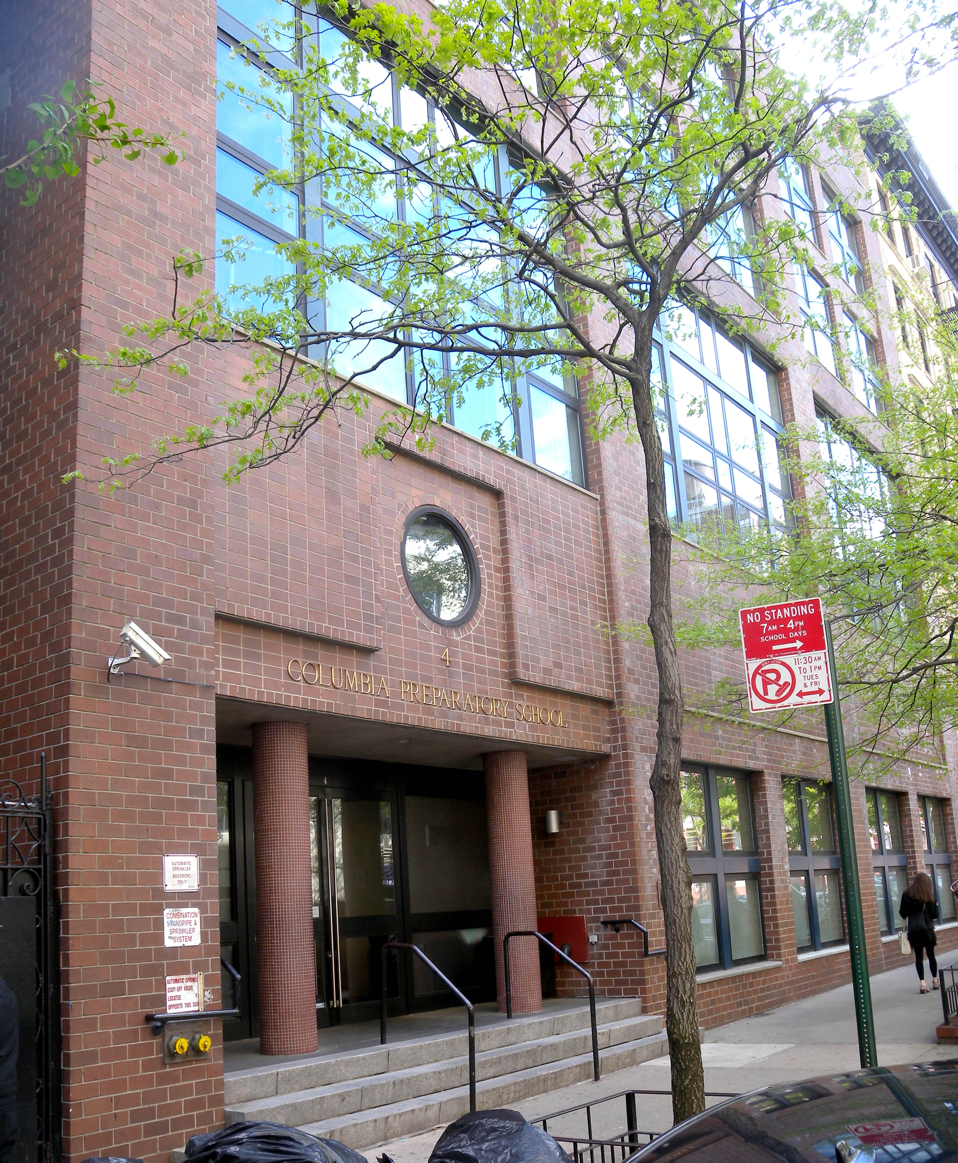 Looking west along 93d at Columbia Prep on a sunny afternoon.